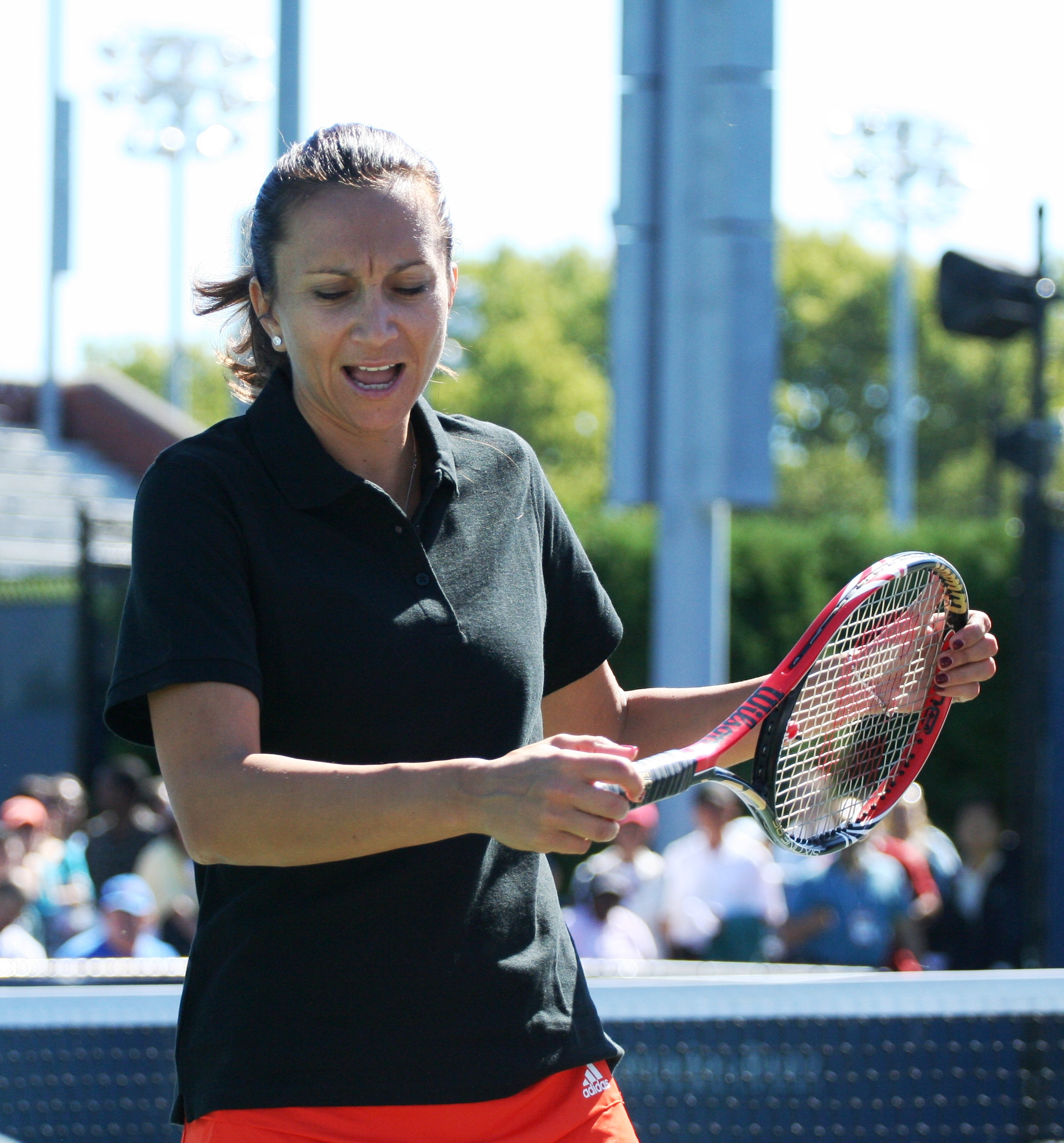 U.S. Open Champions Team Tennis Saturday, Sept. 11, 2010